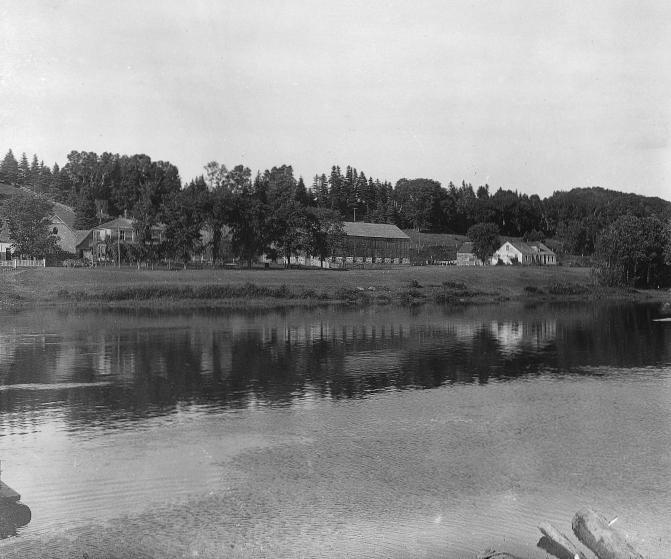 Photograph, Blackville, NB, 1915 (?), Wm. Notman & Son, Silver salts on glass - Gelatin dry plate process - 10 x 12 cm